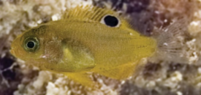 Juvenile Pomacentrus amboinensis showing eyespot on dorsal fin. Image modified from McCormick, Mark I. (2009-09-18). "Behaviourally Mediated Phenotypic Selection in a Disturbed Coral Reef Environment". PLoS ONE 4 (9): –7096. Retrieved on 2013-02-21.